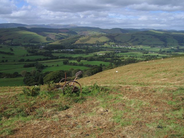 Dyfi Valley Old farm equipment in foreground; Dyfi Valley beyond. This is on Glyndwr's Way east of Penegoes, as it contours around the common land of Bryn Wg.